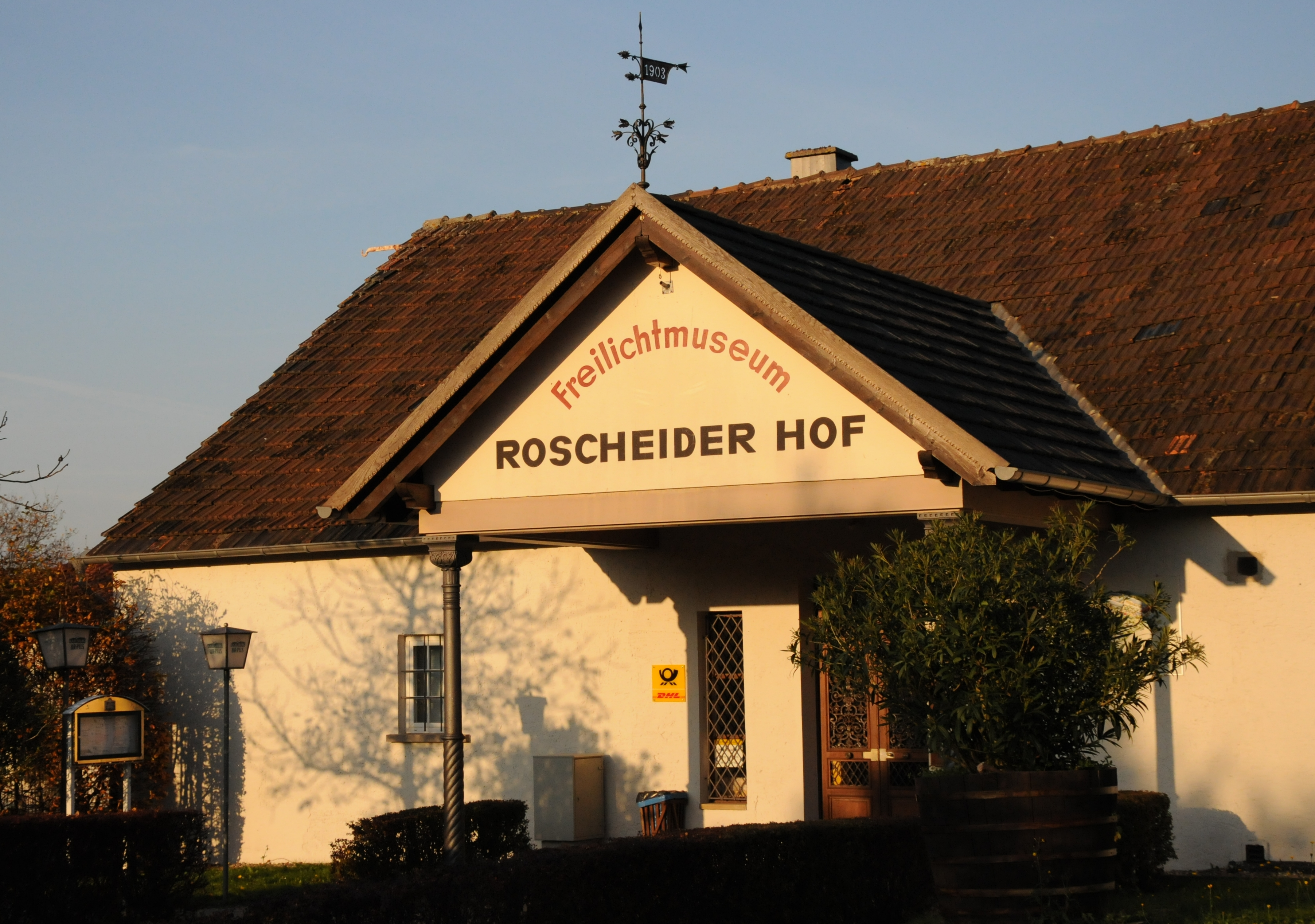 Open air museum Roscheider Hof, Germany, Entry building